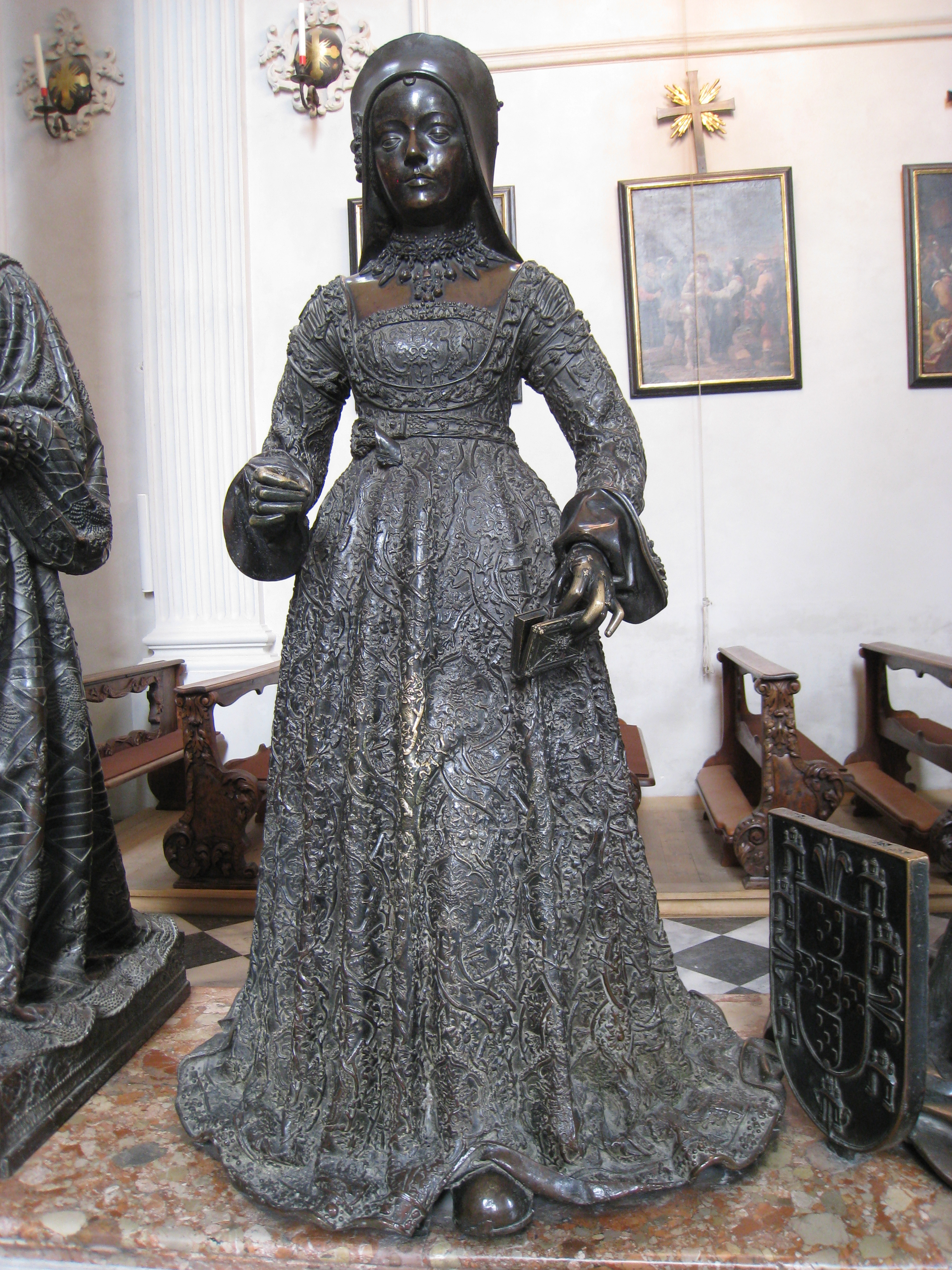 Statue within Hofkirche, Innsbruck, Austria. This statue is old enough so that it is not covered by any copyright.